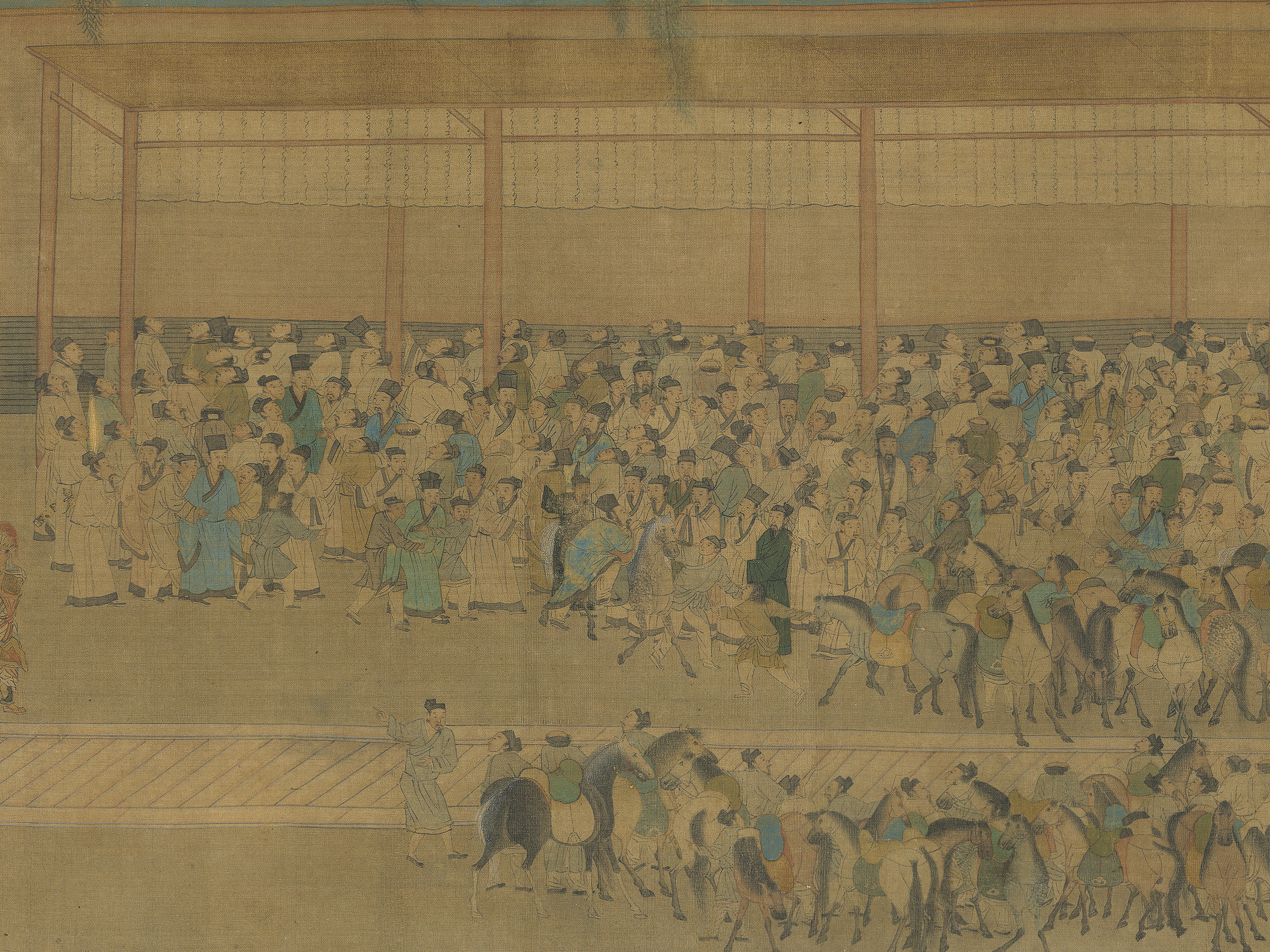 Civil service exam candidates gather around the wall where results had been posted. Artwork by Qiu Ying (仇英 c.1540). Qiu Ying painted this image of candidates who had taken the civil service exams as the waited at the wall where officials would post the scores. --User:Fresheneesz This is a faithful photographic reproduction of a two-dimensional, public domain work of art. The work of art itself is in the public domain for the following reason: This work is in the public domain in its country of origin and other countries and areas where the copyright term is the author's life plus 100 years or fewer. You must also include a United States public domain tag to indicate why this work is in the public domain in the United States. This file has been identified as being free of known restrictions under copyright law, including all related and neighboring rights. The official position taken by the Wikimedia Foundation is that "faithful reproductions of two-dimensional public domain works of art are public domain".This photographic reproduction is therefore also considered to be in the public domain in the United States. In other jurisdictions, re-use of this content may be restricted; see Reuse of PD-Art photographs for details. File Transferred from en.wikipedia to Commons..org by Spencer195